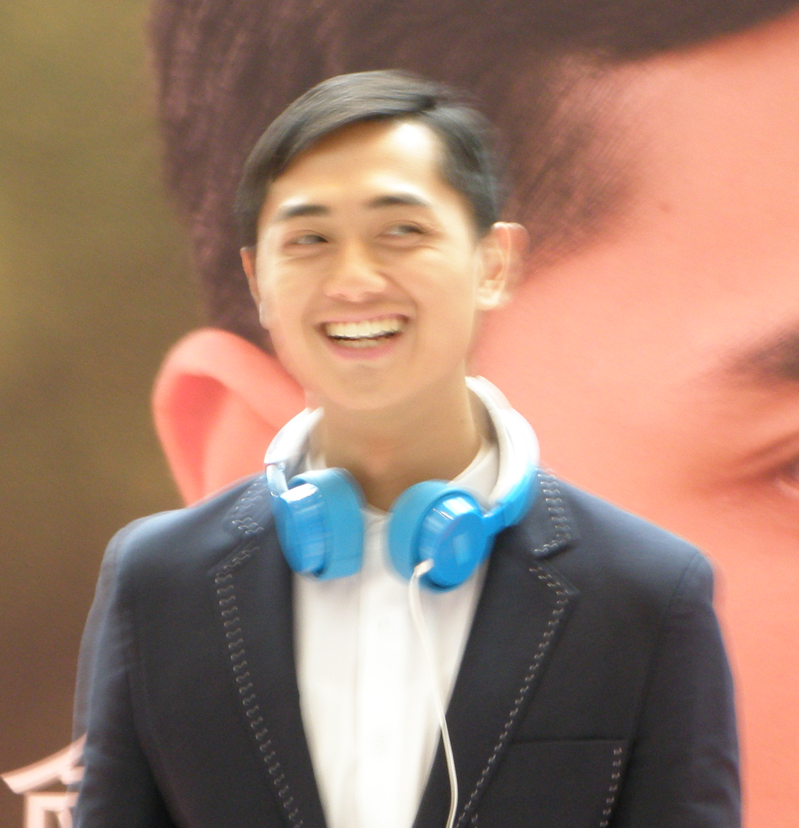 Frederick Cheng, Hong Kong singer and TV actor, taken a TVB drama in The One.